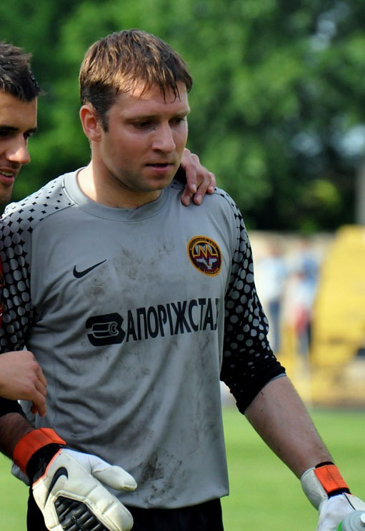 Vitaliy Rudenko Ukrainian footballer, after the game for FC Metalurh Zaporizhya